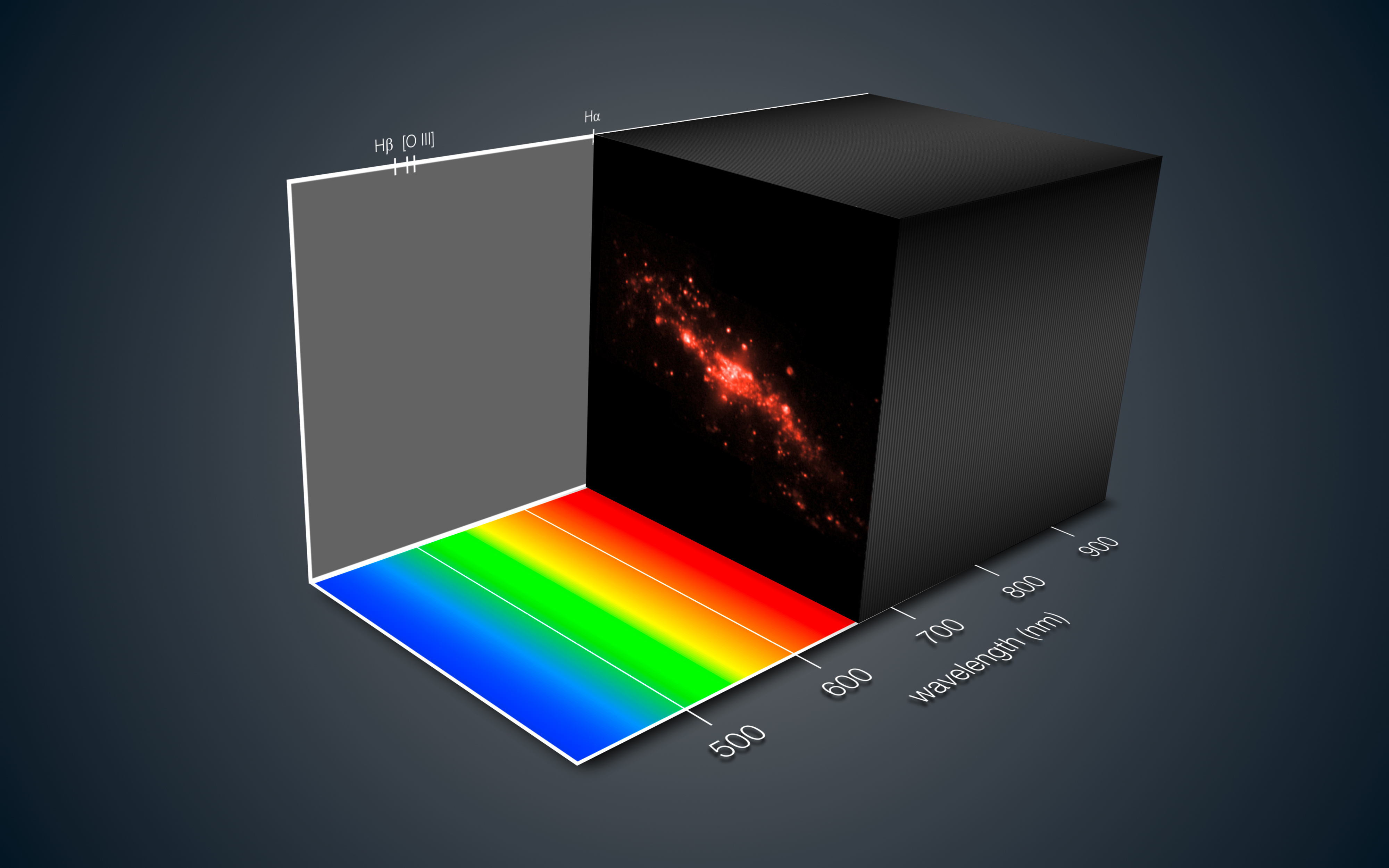 This view shows how the new MUSE instrument on ESO’s Very Large Telescope gives a innovative three-dimensional depiction of a distant galaxy. For each part of the galaxy the light has been split up into its component colours — revealing not only the motions of different parts of the galaxy but also clues to its chemical composition and other properties. During the subsequent analysis the astronomer can move through the data and study different views of the object at different wavelengths, just like tuning a television to different channels at different frequencies. This picture is based on data on the polar ring galaxy NGC 4650A that were obtained soon after the instrument achieved first light in early 2014.